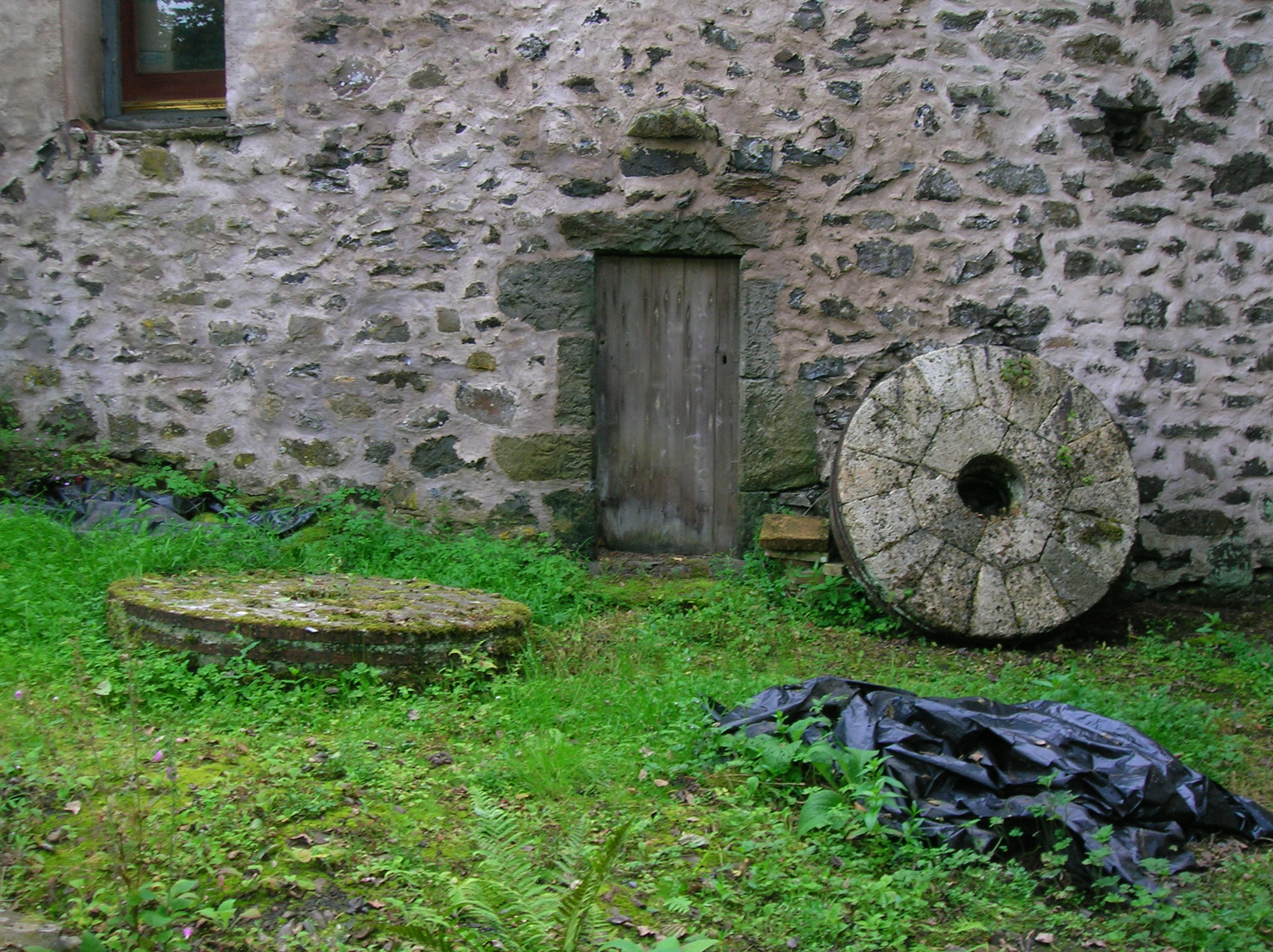 Millstones at the old Aiket cornmill on the Glazert Water, East Ayrshire, Scotland.